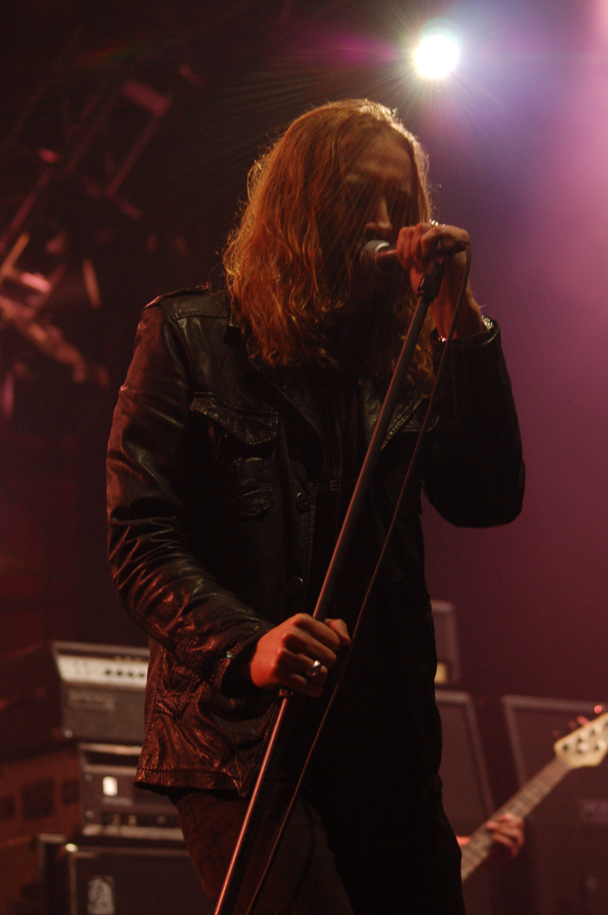 Nick Holmes from Paradise Lost during Metalmania 2007 festival